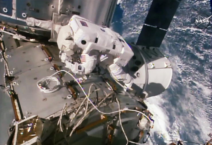 Spacewalker Kate Rubins works outside the International Space Station with the SpaceX Dragon space freighter just below her.